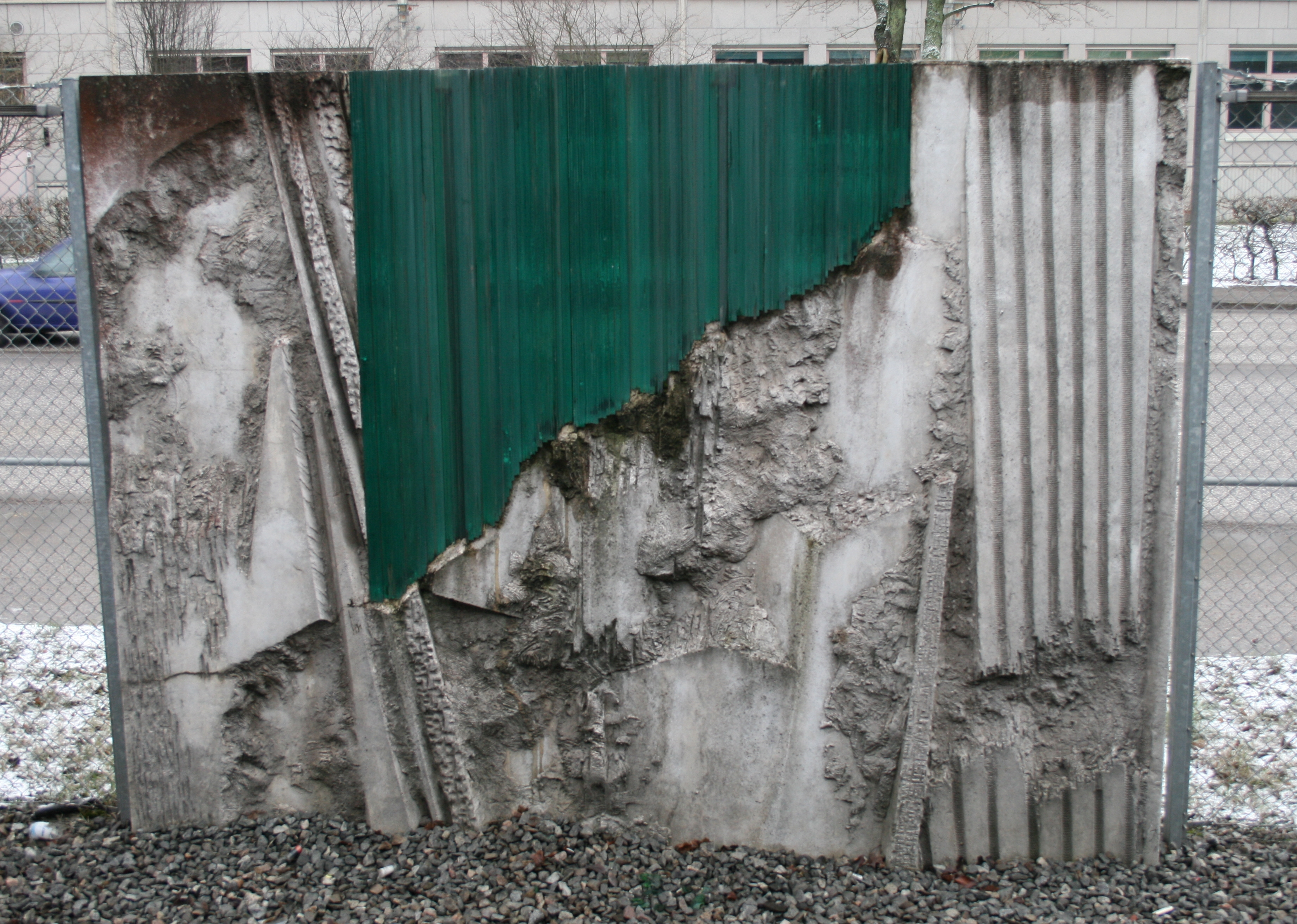 Artwork at the Stockholm metro station Globen